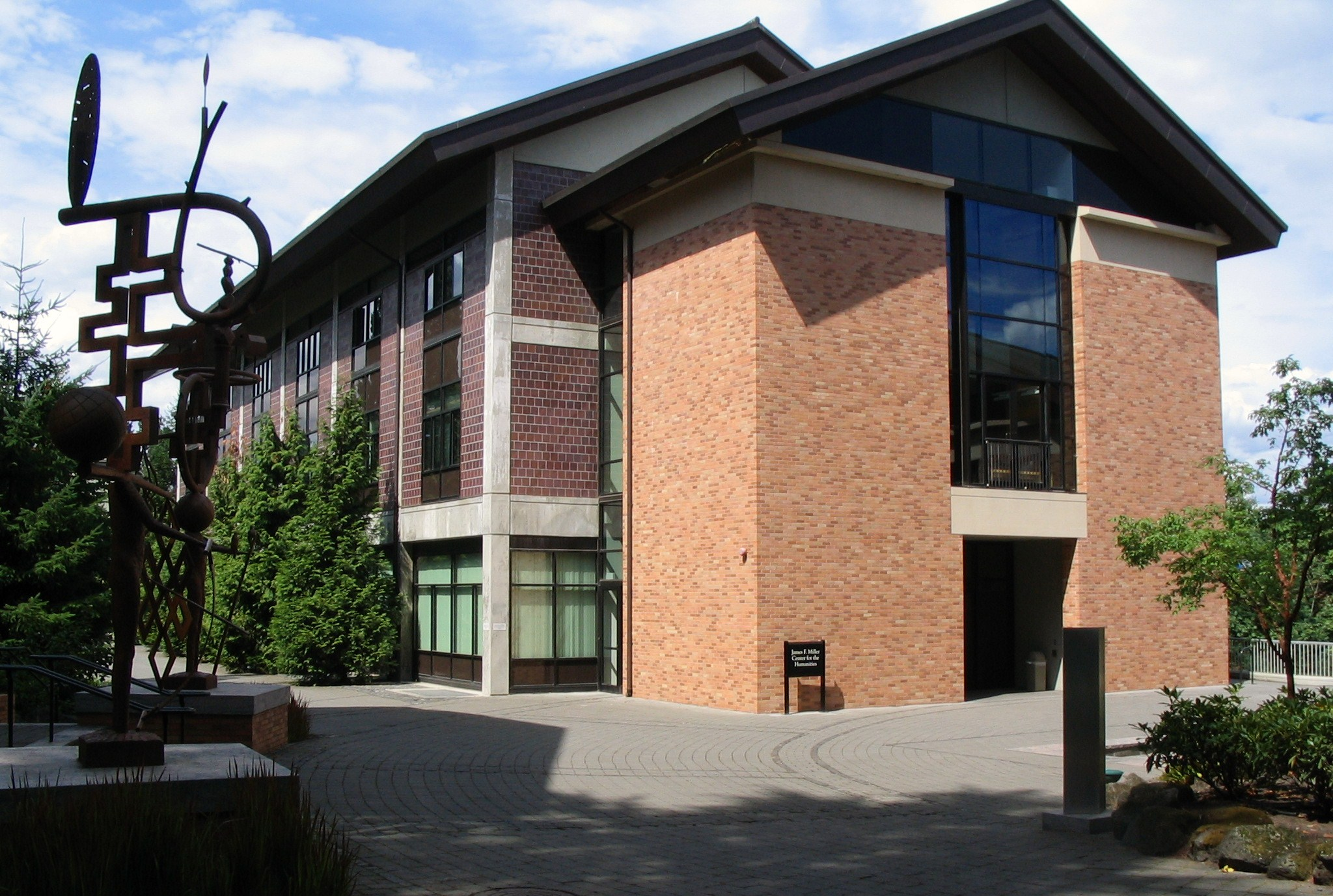 Miller Center for the Humanities at Lewis & Clark College in Portland, Oregon, USA.